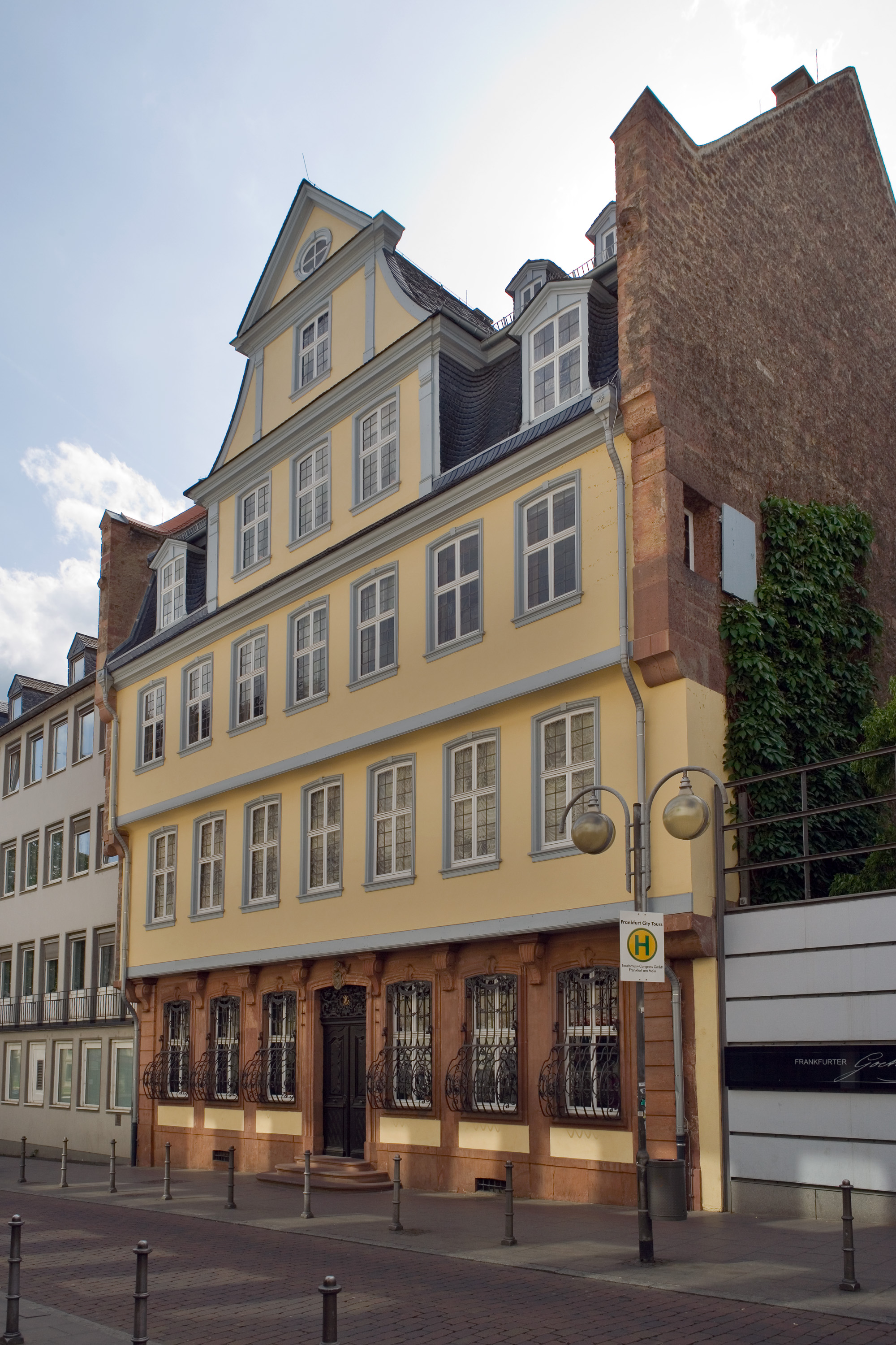 Frankfurt on the Main: Goethe-Haus as seen at the Grosser Hirschgraben